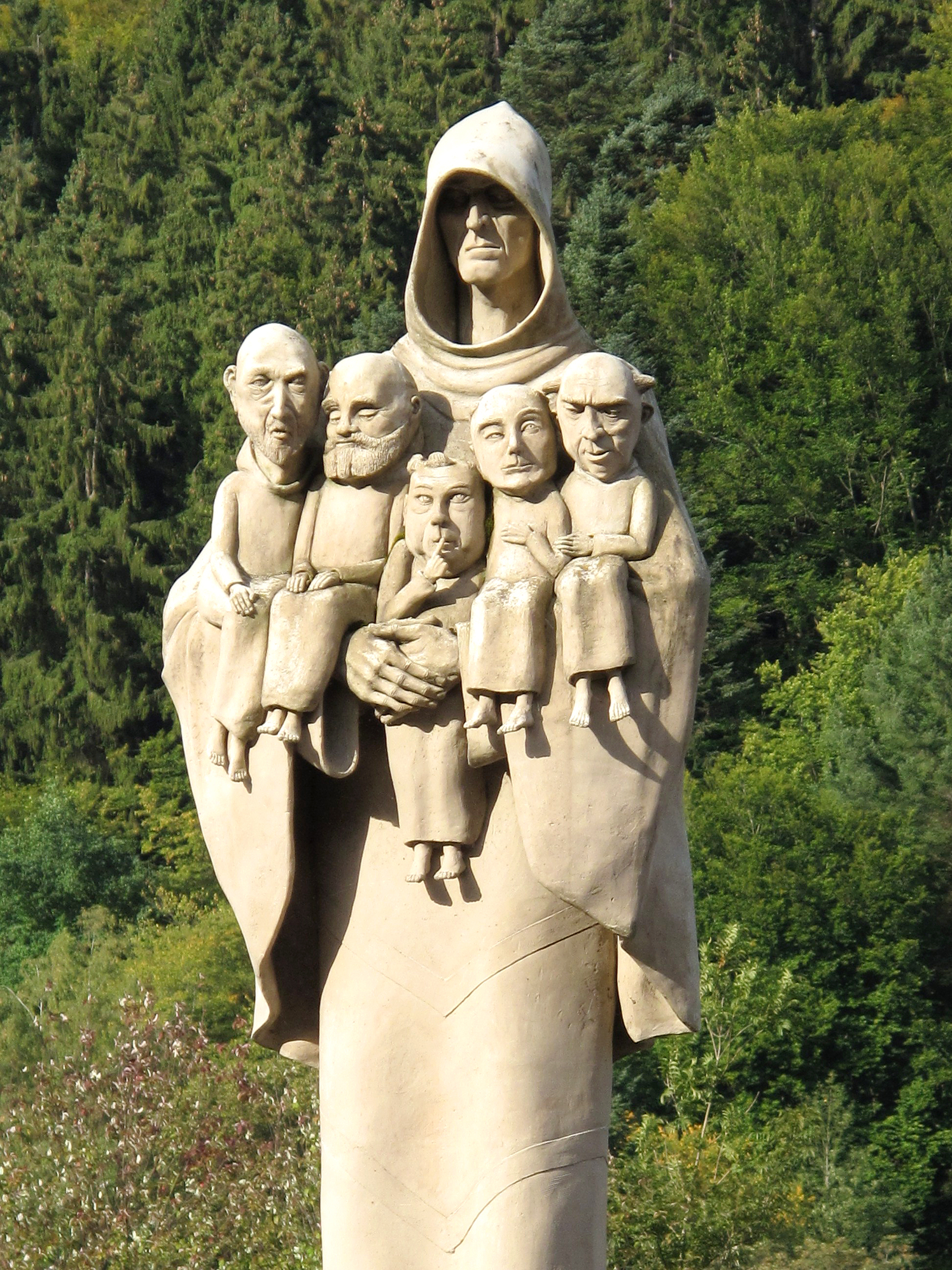 Peter Lenk, Drei Zeitzeugen – 3 Figuren auf Säulen, Figur: "Mönchsfigur“, 2004